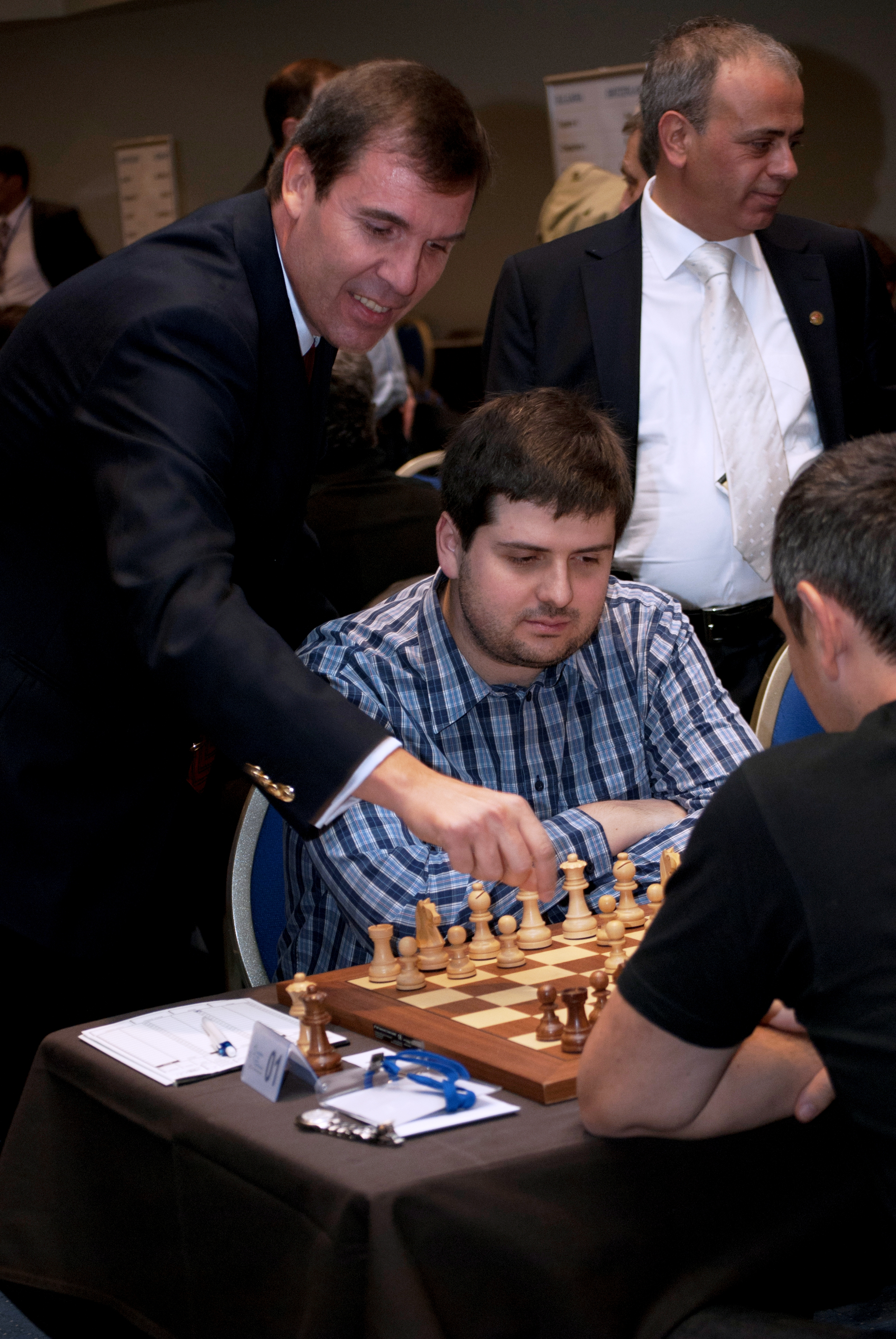 Mr Danailov makes the first move of the tournament, Porto Carras EchT 2011.